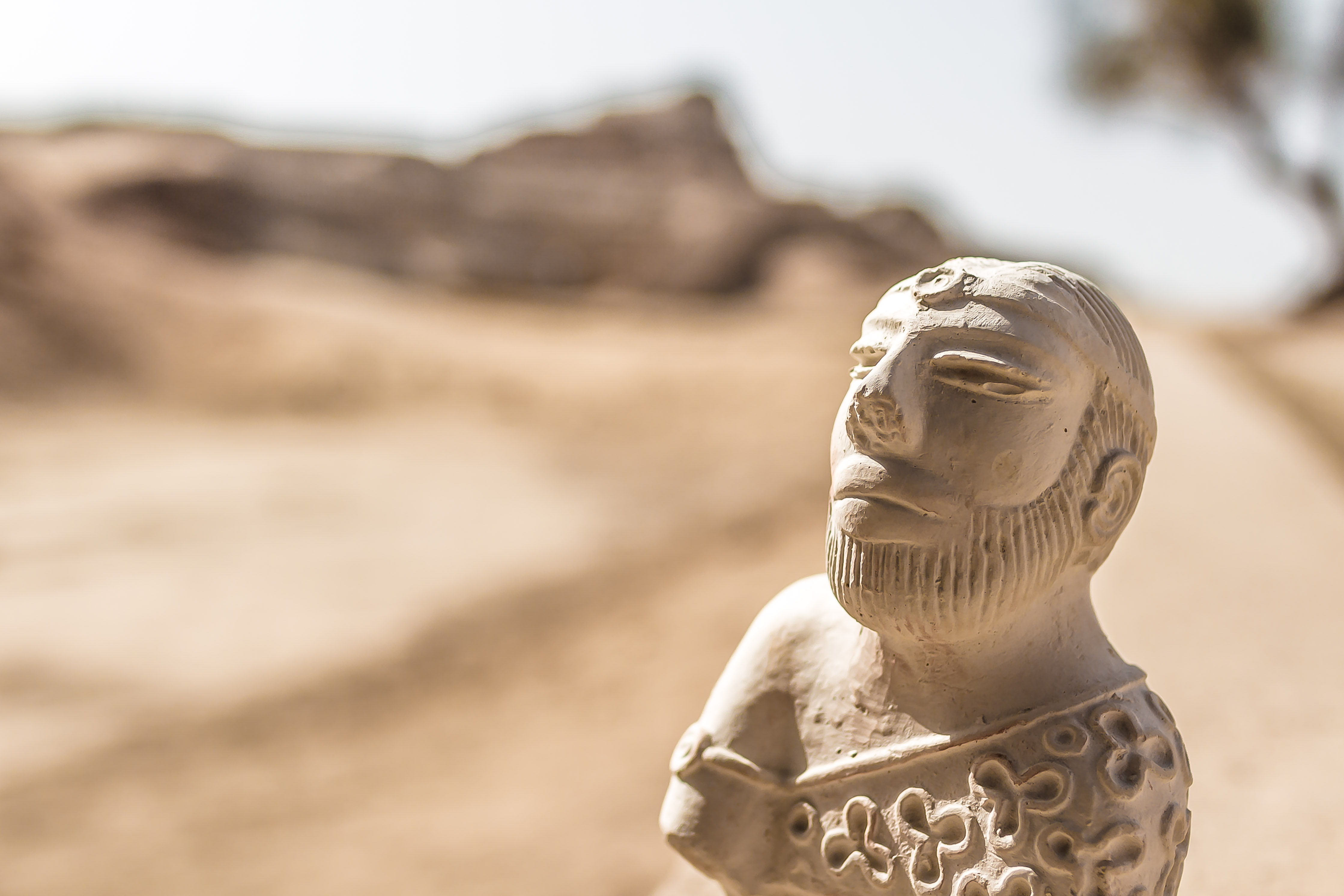 Moenjodaro This is a photo of a monument in Pakistan identified as the SD-41